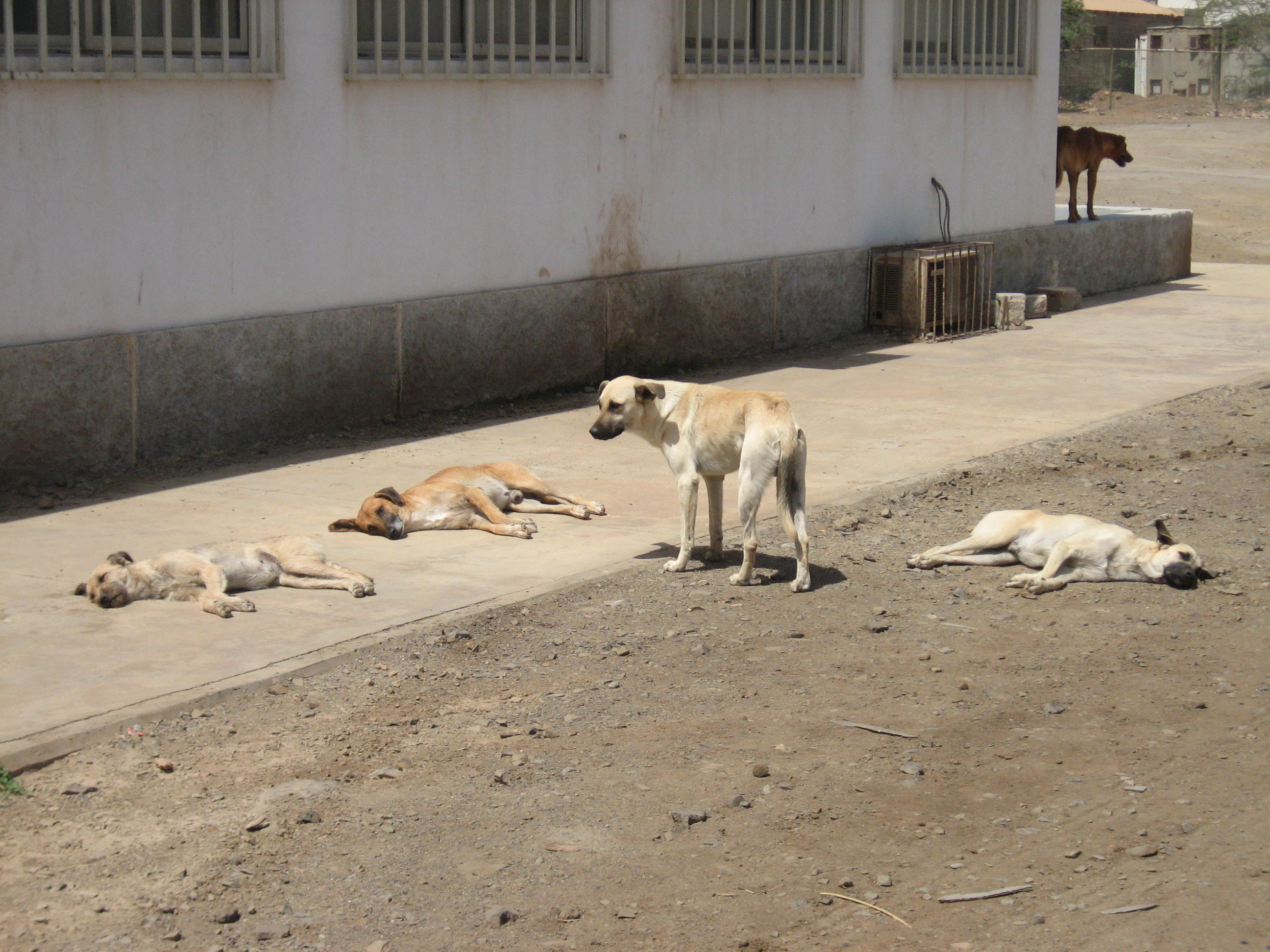 Dogs affected by the heat in Palmeira on Sal, Cape Verde